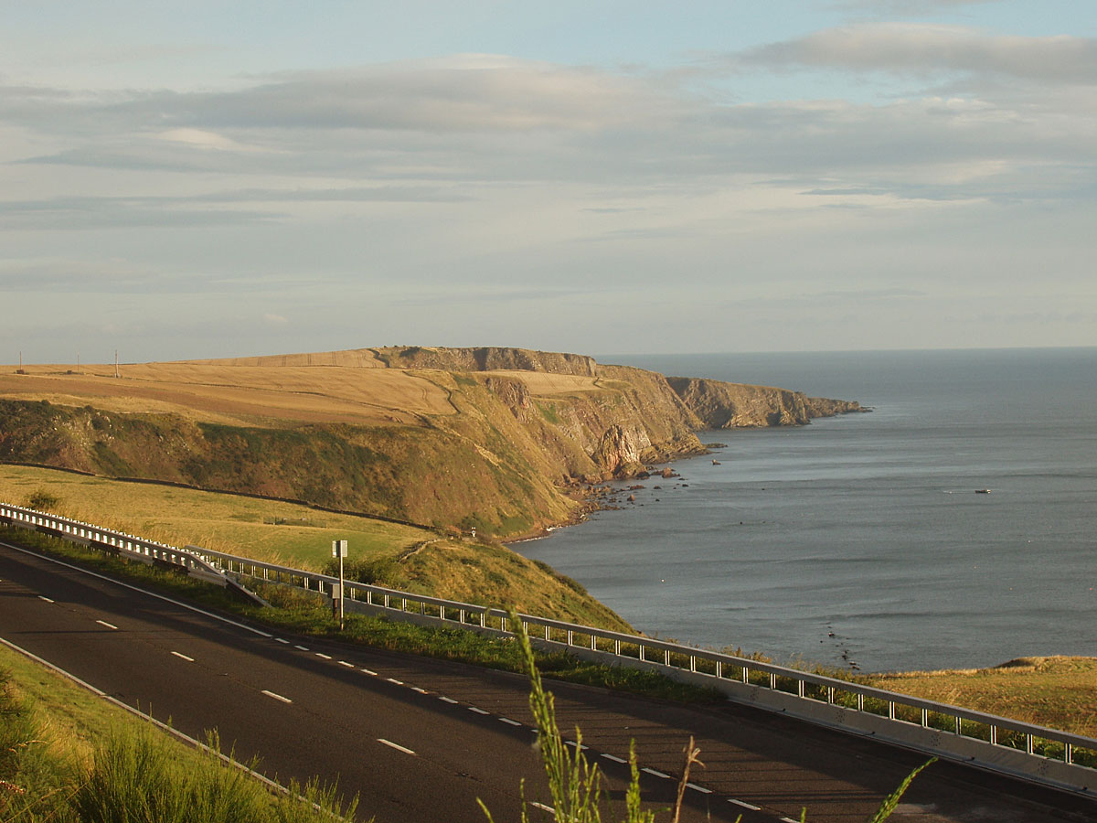 The A1 road skirting the Scottish coastline just across the border from Northumberland (south of Burnmouth).